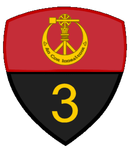 Coat of Arms of the 3rd Company of Engineers